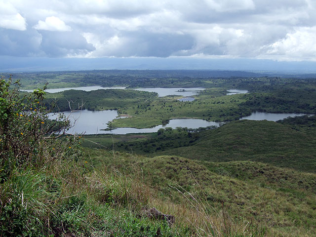 A view down to the Momella Lakes